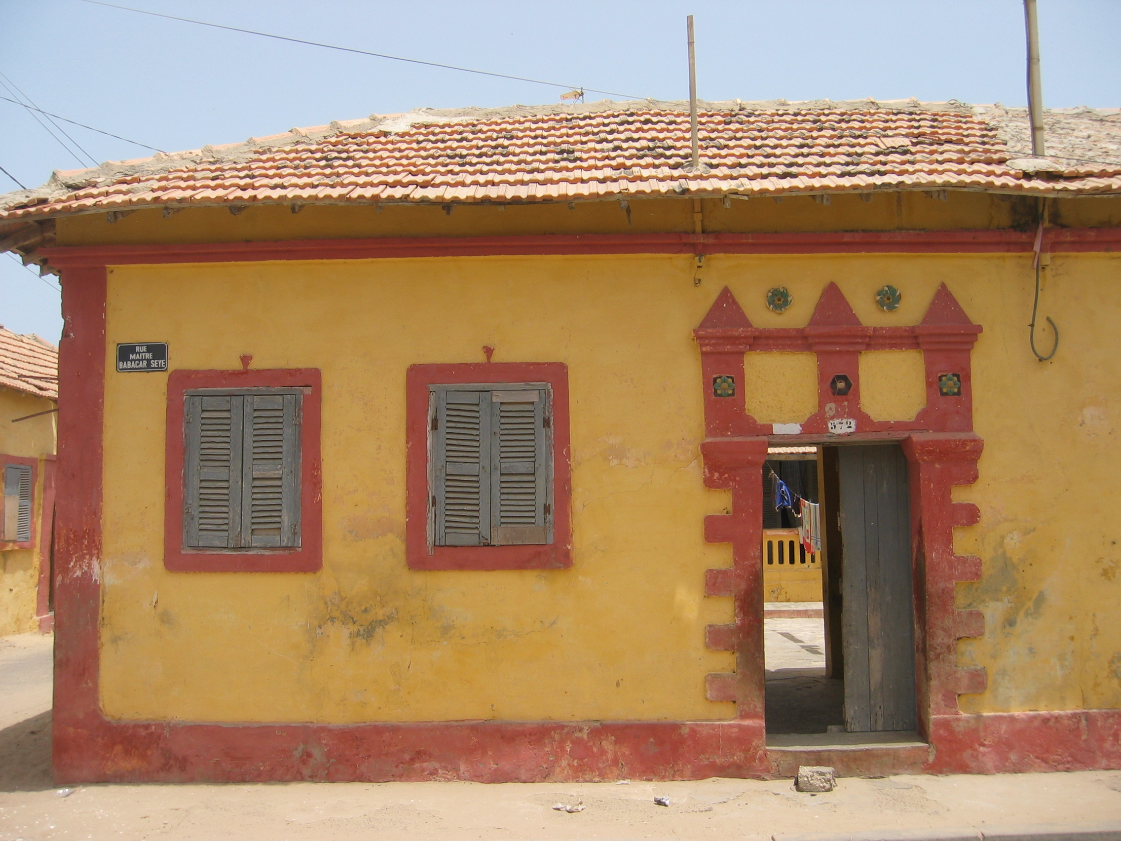 Rue Maître Babacar Sèye, Saint-Louis (Senegal)